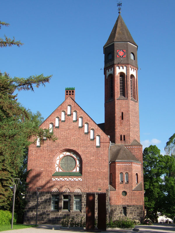 Church and Memorial for the deported people with disabilities in Schwalmstadt-Hephata, Germany